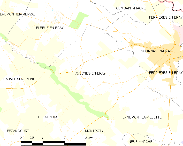 Map of French municipality Avesnes-en-Bray